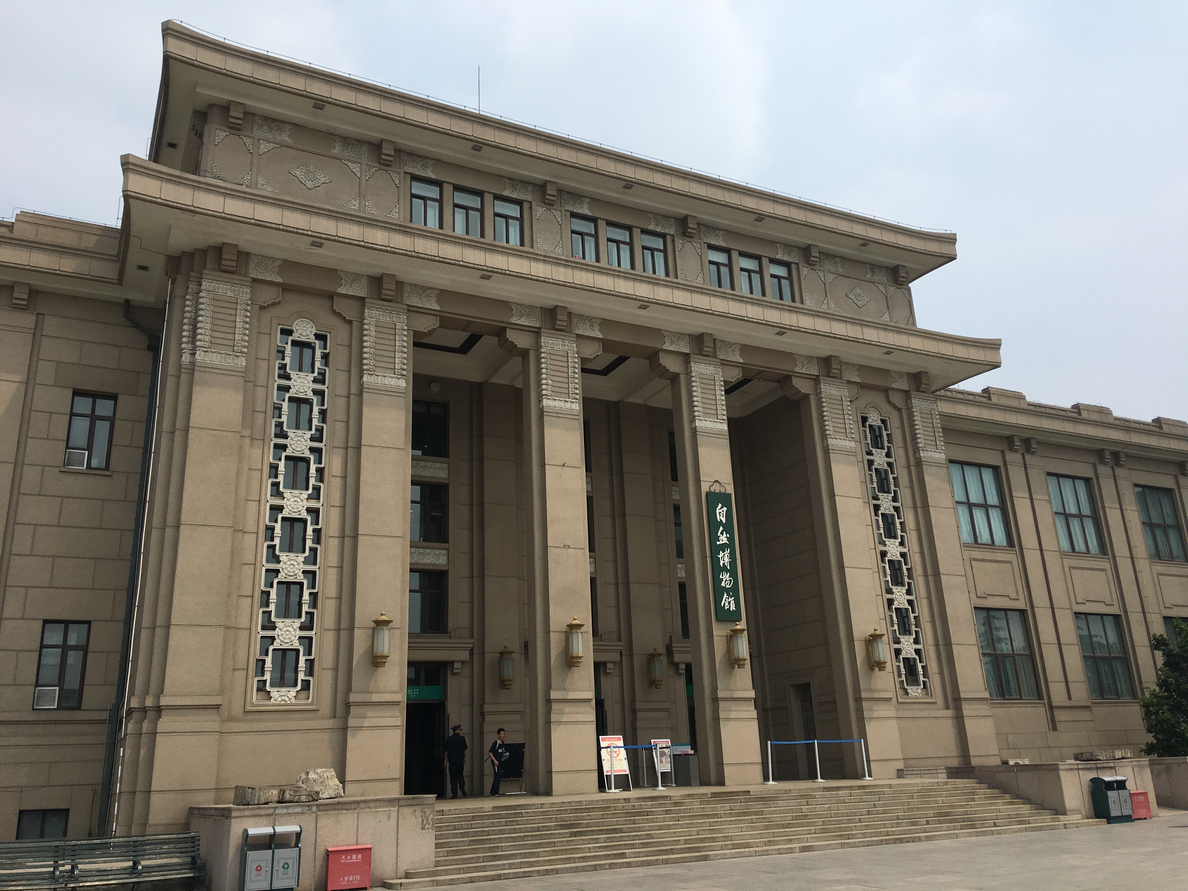 Image from Tianqiao area, west of the Temple of Heaven park. South-Central Beijing, China.